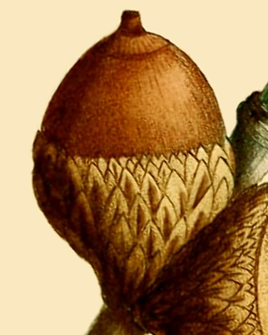 Acorn detai from a plate from Histoire des arbres forestiers de l'Amérique septentrionale: Quercus marilandica - blackjack oak.Original caption: Quercus ferruginea. Black Jack Oak.